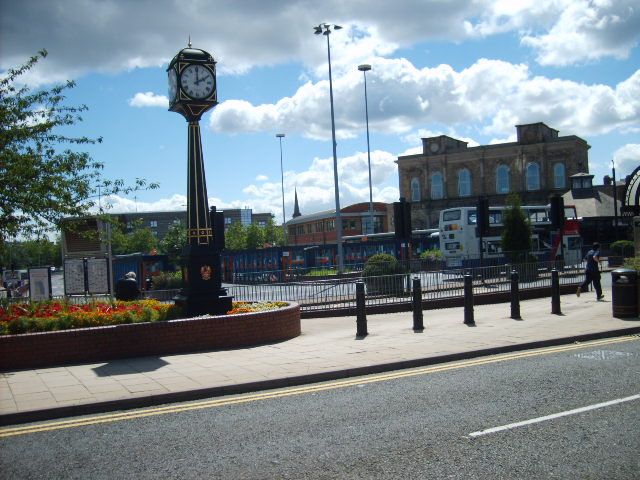 Wolverhampton Bus Station Viewed from Railway Drive.